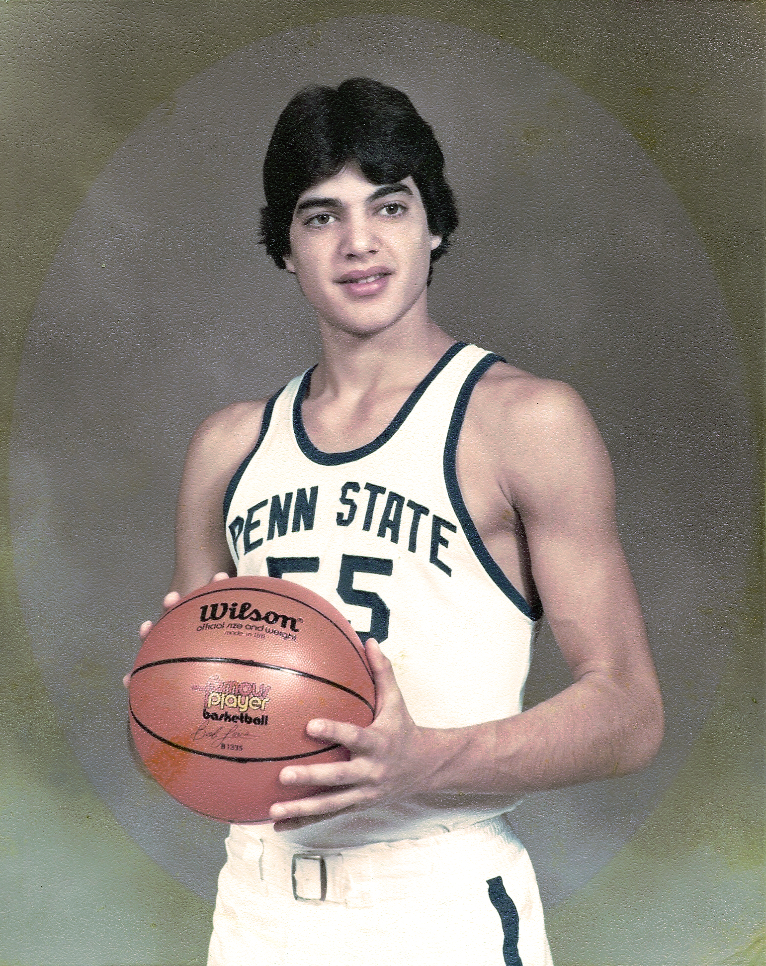 Chris Roupas, freshman year, Penn State University, August 1975.Category:Basketball players from Pennsylvania.